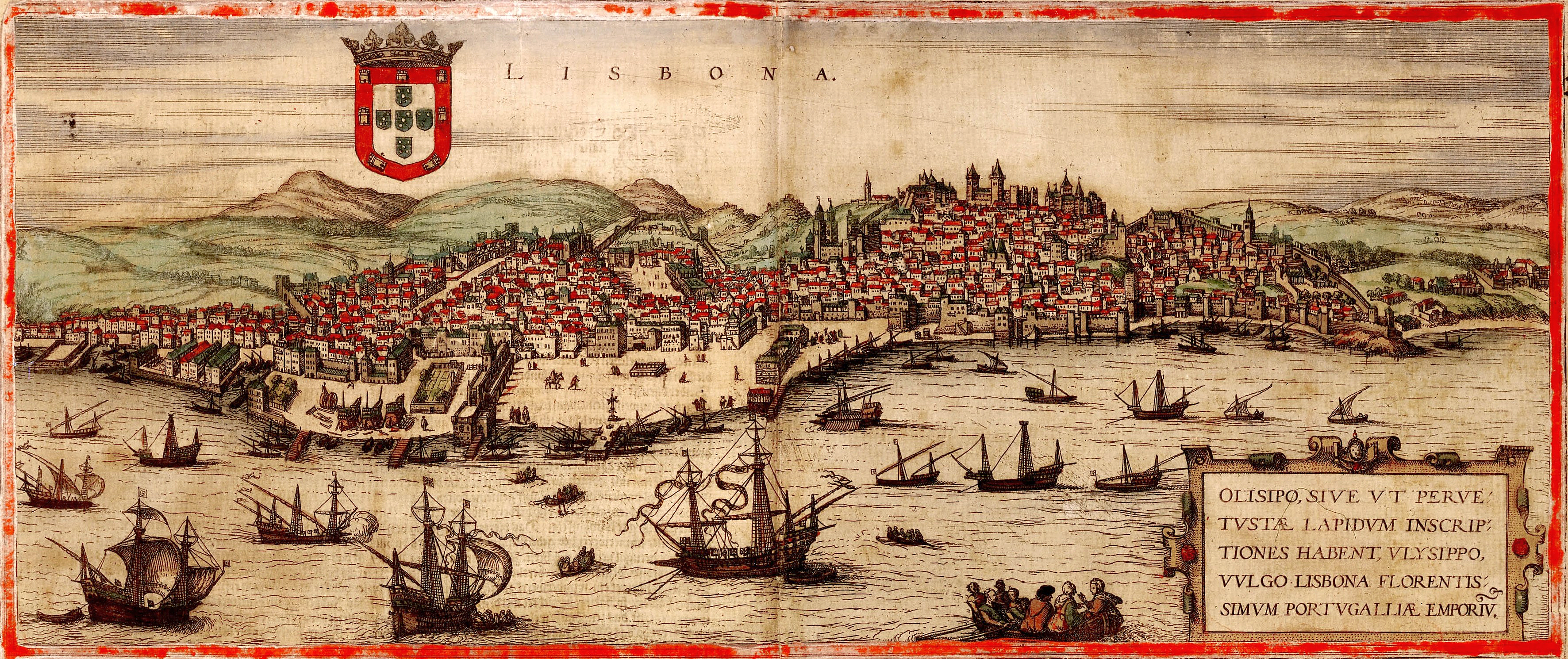 View of Lisbon and Tagus River in the 16th century - Sailing ship’s Caravel and Carrack at the age of Portuguese discoveries